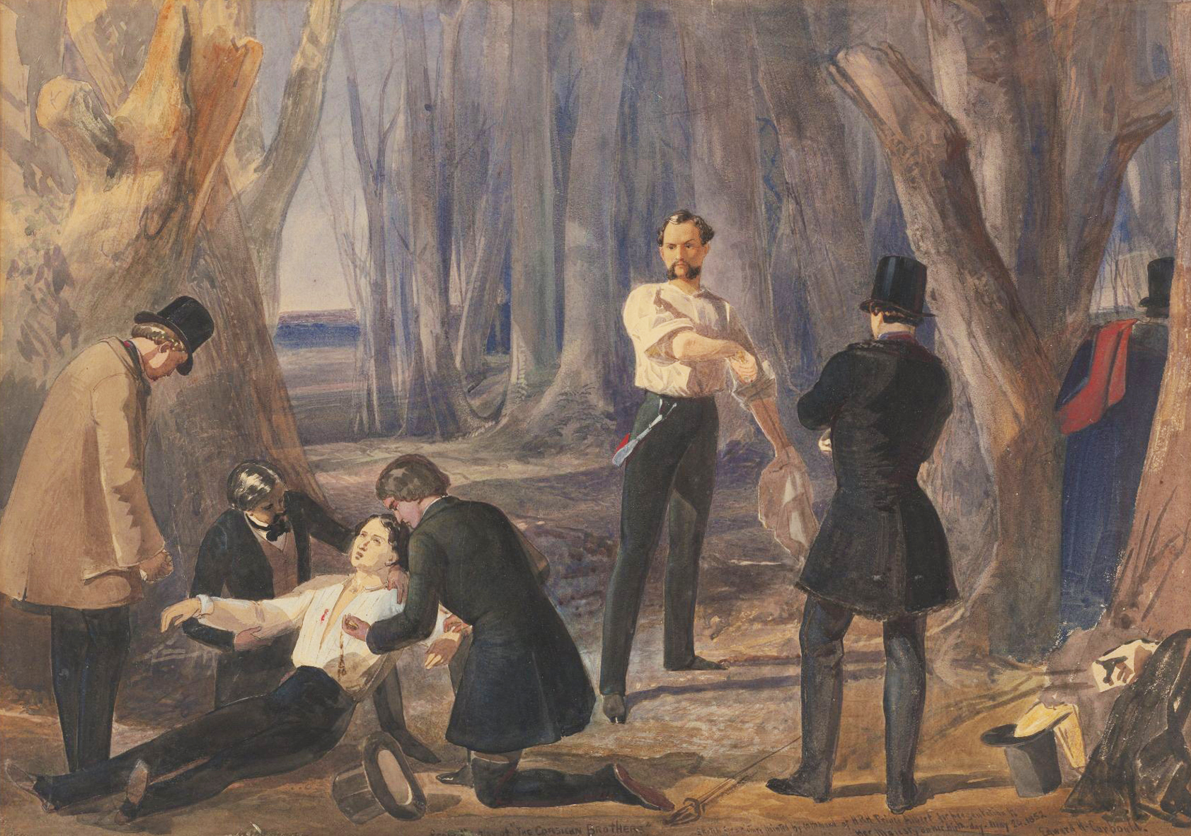 Cropped version of "Duel scene from The Corsican Brothers, watercolor, by Edward Henry Corbould (1815-1905). Dated London, 1852 May 24. The 43 x 61 cm. (excluding frame) image depicts a scene from a play by Dion Boucicault performed at the Princess' Theatre (London) under the management of Mr. Charles Kean, 1852. Text on image notes: "Sketch for a picture painted by command of HRH Prince Albert for presentation to her majesty on her birthday." MS Thr 709, Houghton Library, Harvard University